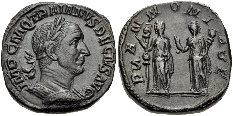 Trajan Decius. AD 249-251. Æ Sestertius (27mm, 19.43 g, 12h). Rome mint, 3rd officina. 3rd-4th emissions, AD 250. IMP C M Q TRAIANVS DECIVS AVG, laureate and cuirassed bust right, seen from behind P A NNONI A E, the two Pannoniae standing facing, heads turned away from one another, each holding signum; S-C across field. RIC IV 124d; Banti 22.